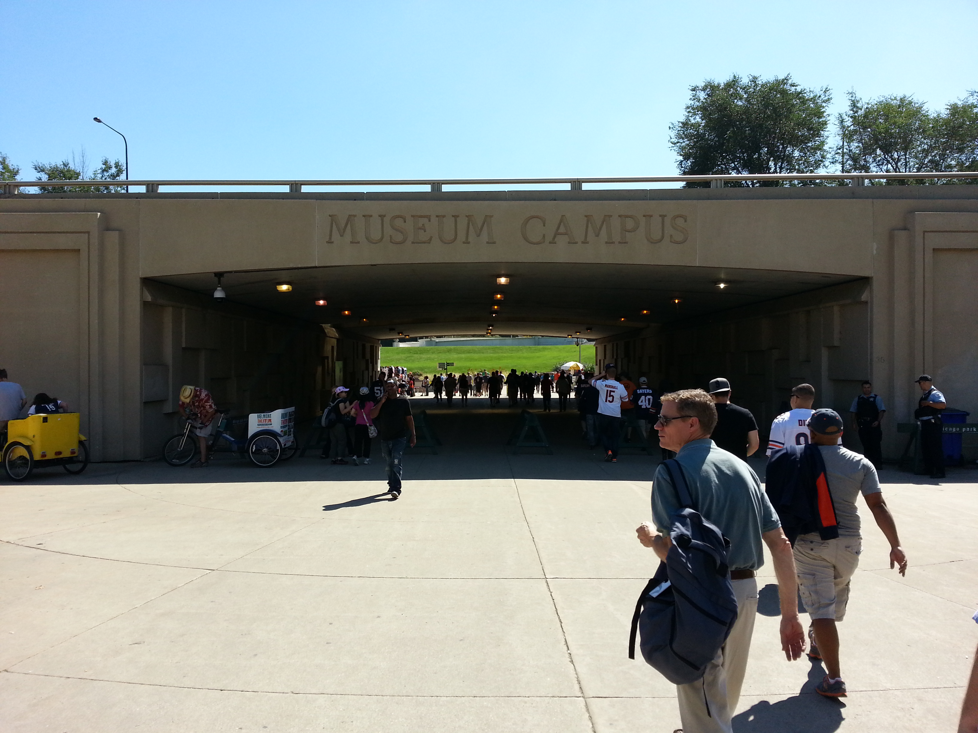 Pedestrian tunnel to the Museum Campus under Lake Shore Drive, Chicago, Illinois